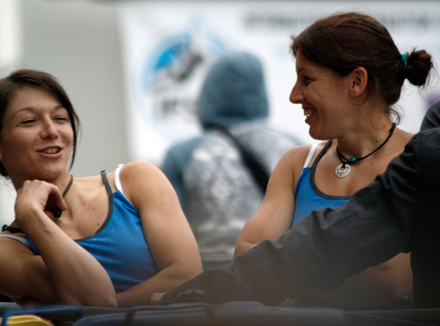 Barbara Bacher and Sabine Bacher during qualifications at the IFSC Boulder Worldcup Vienna 2010.